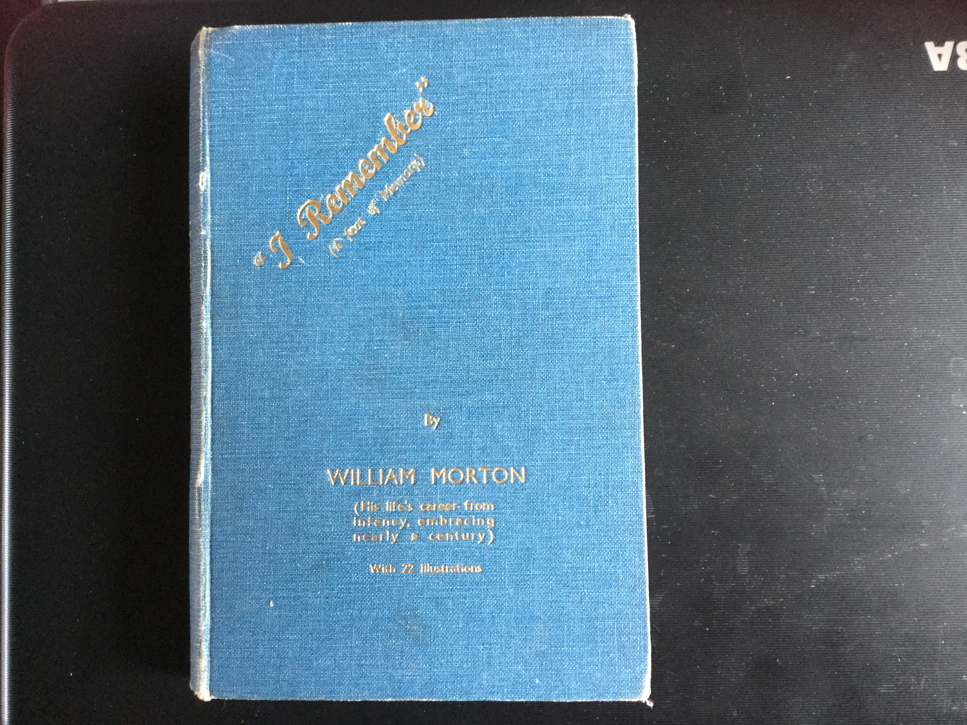 "I remember", the memoirs of William Morton, a 96 year old British theatre manager, published in 1934